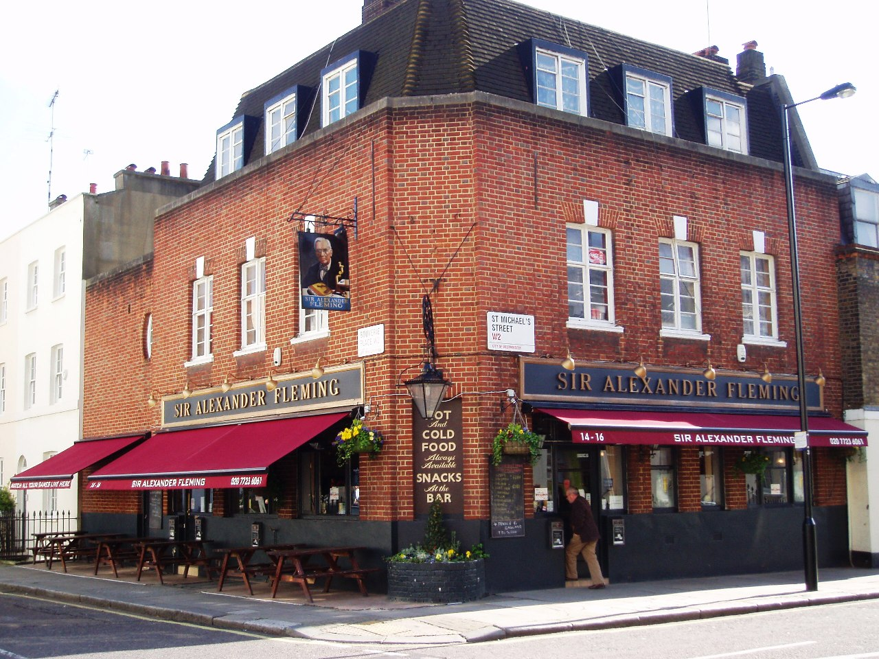 From the looks of it, an old man's pub. Then again, maybe that's just who's in any pub at 3pm on a weekday. Address: 16 Bouverie Place. Links: Fancyapint Beer in the Evening